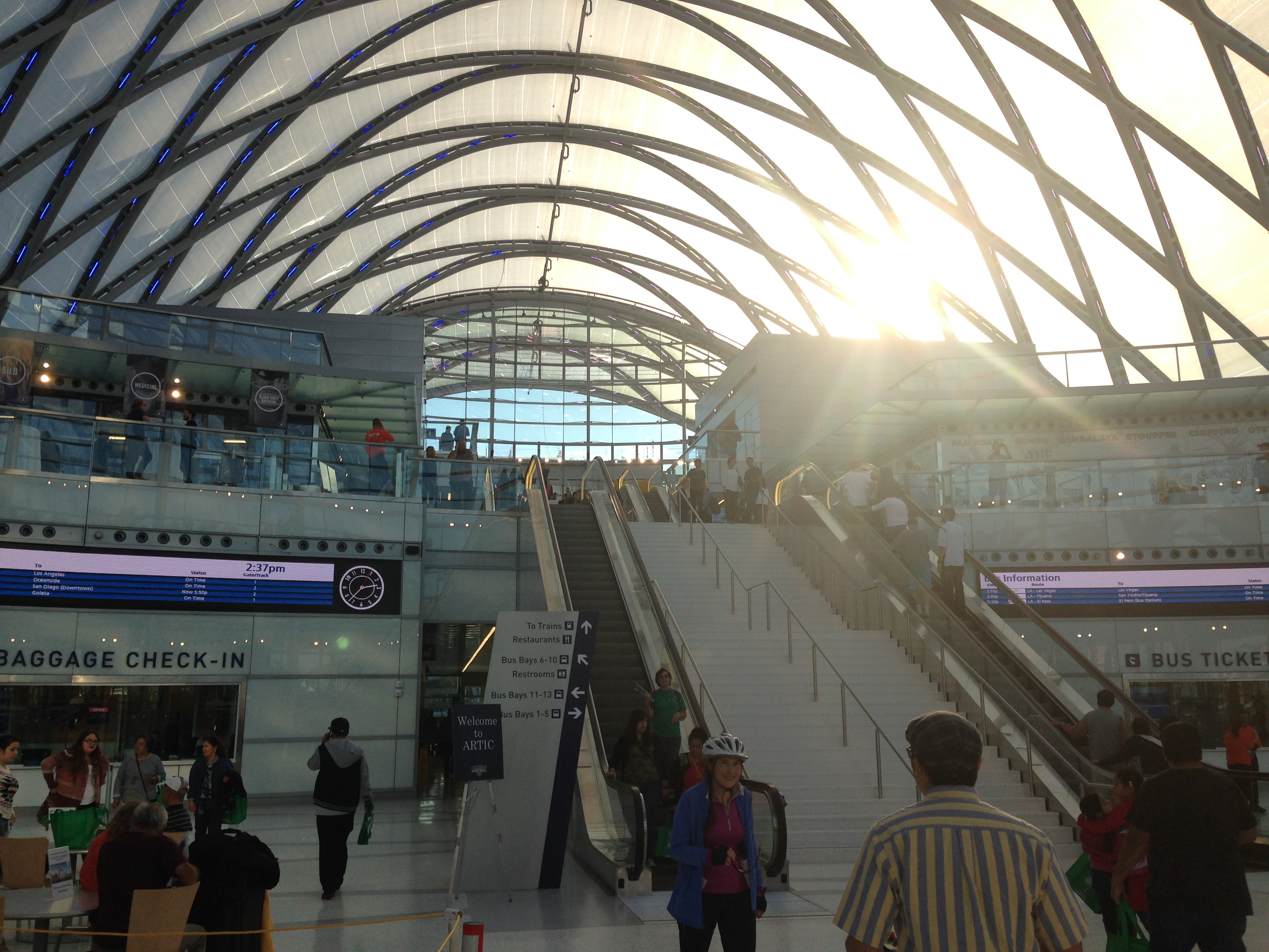 What visitors see once they enter the front of the transportation center.